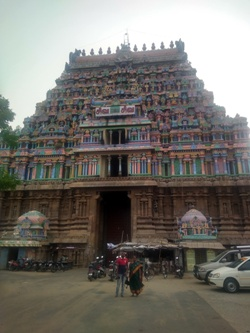 Tiruvarur thyagesar temple திருவாரூர் தியாகராஜர் கோயில்